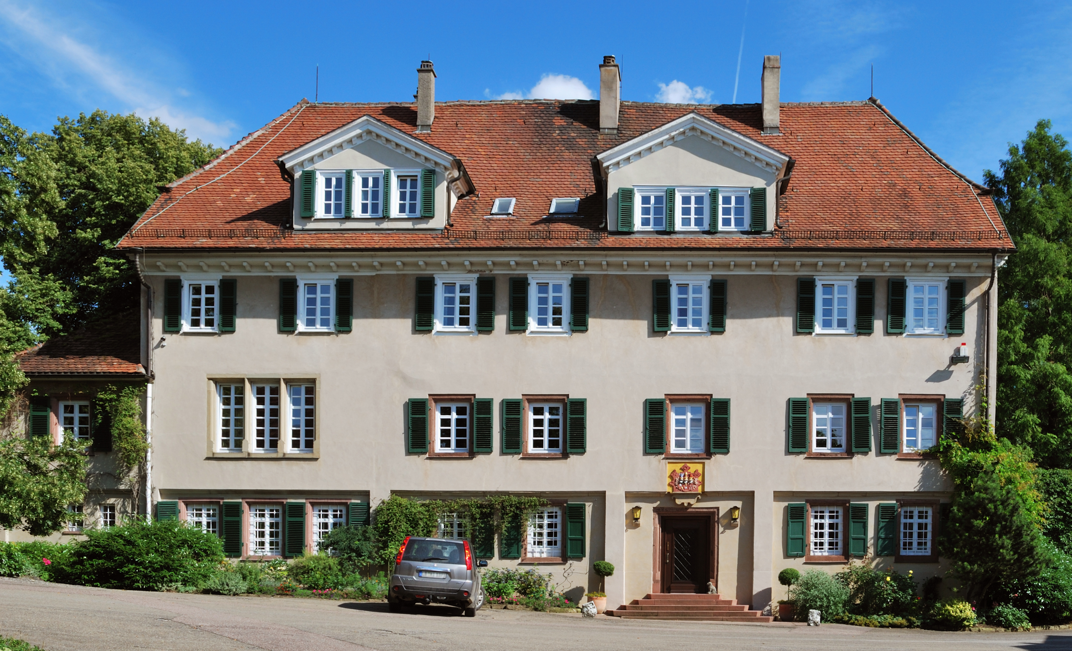 Manor house Nippenburg castle near Schwieberdingen in Southern Germany